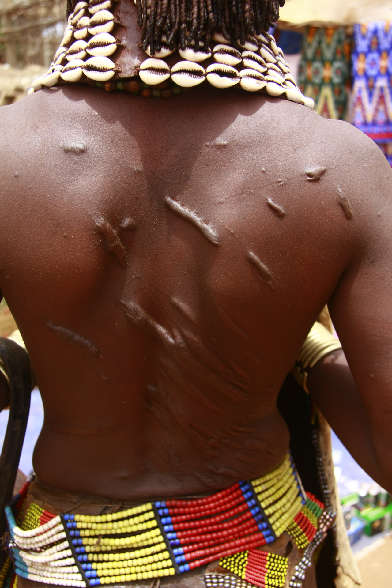 Shots depicting the Lower Valley of the Omo River, UNESCO World Heritage Site, and inhabitants of Southern Ethiopia.